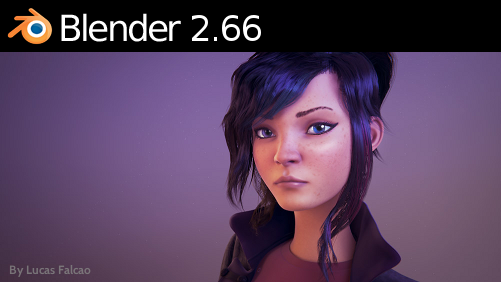 Blender version 2.66 splash screen